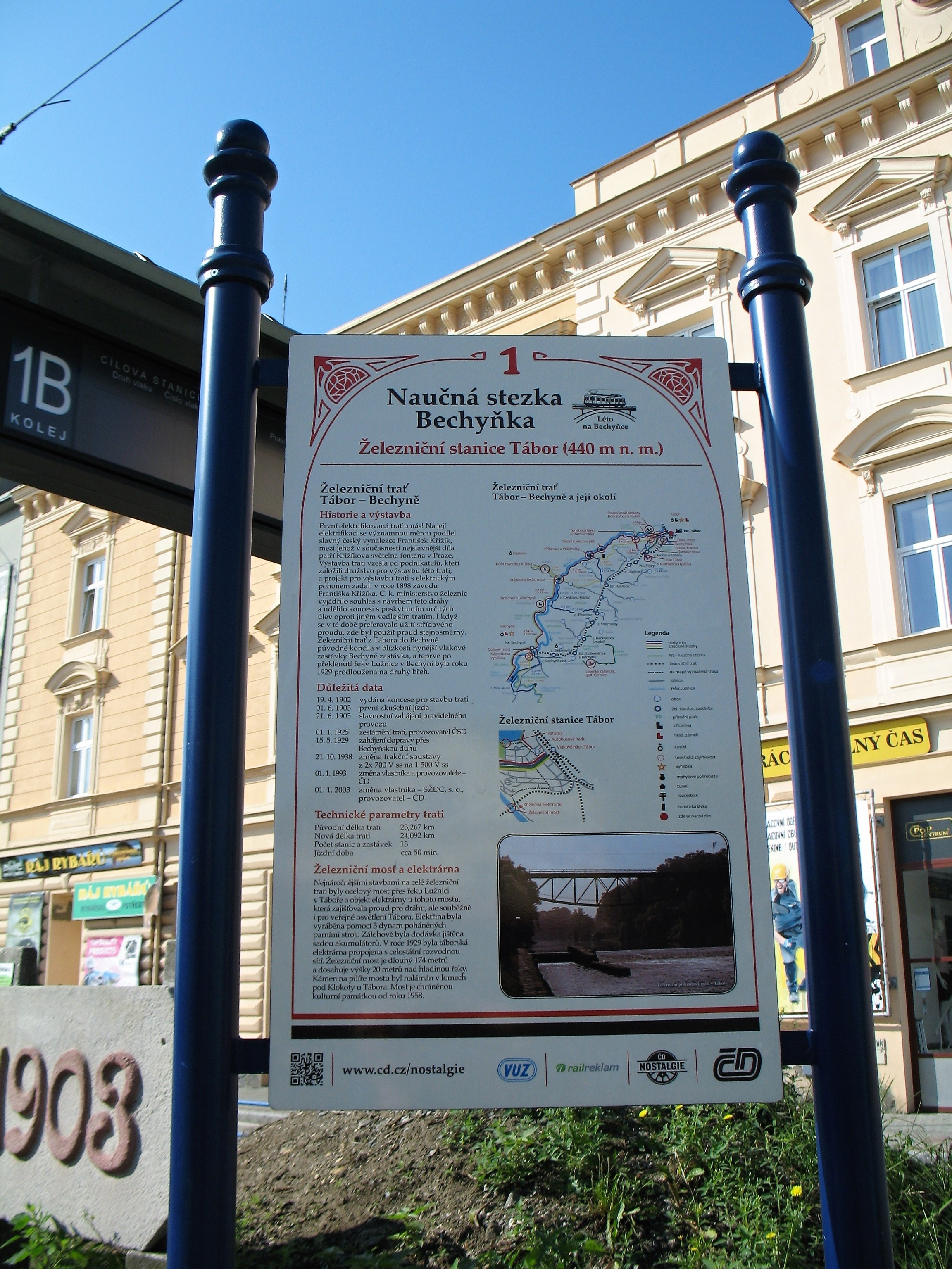 Platform of railway line Tábor - Bechyně in Tábor, Czech Republic